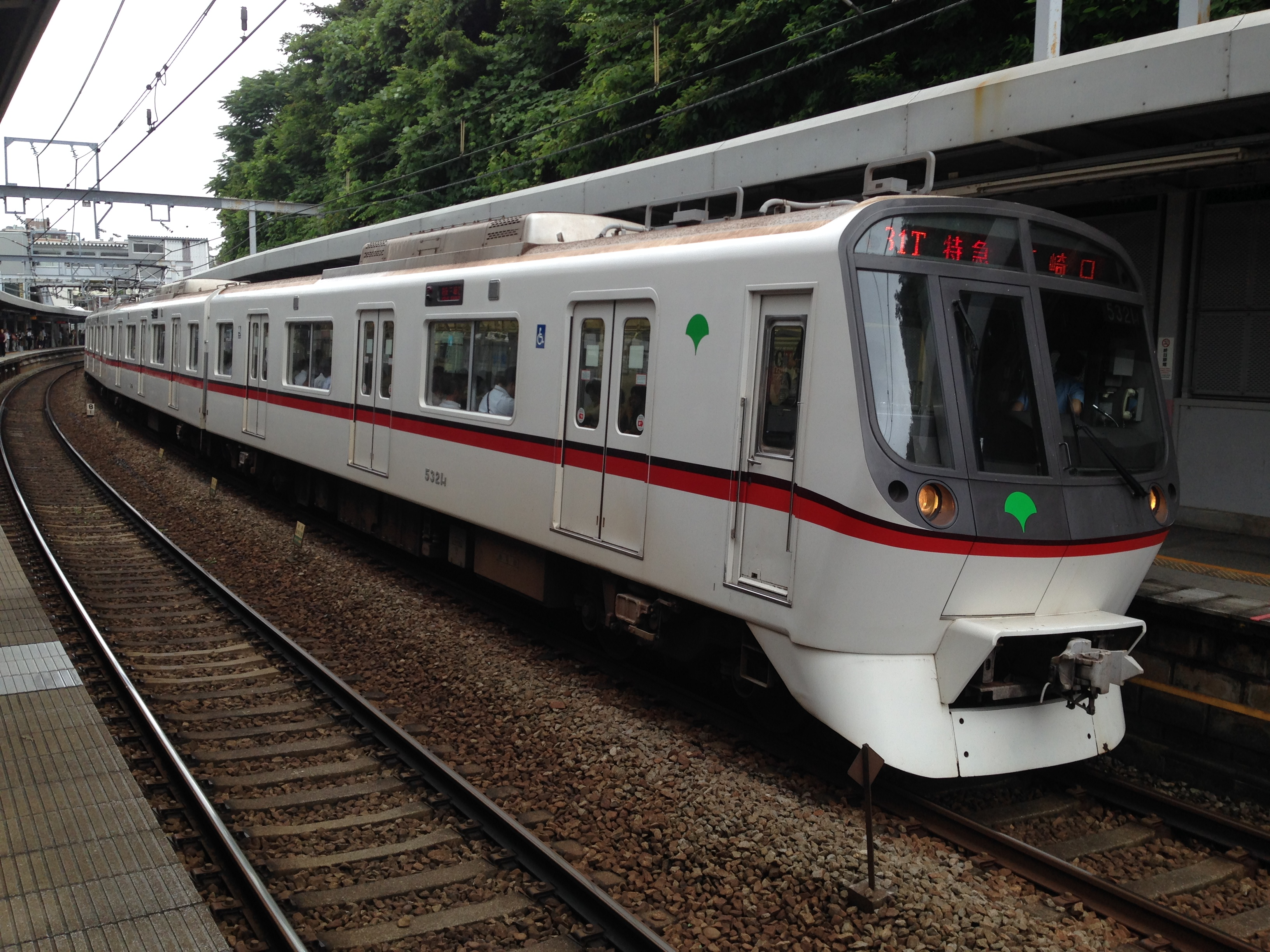 Toei 5300 express at Kita Kurihama